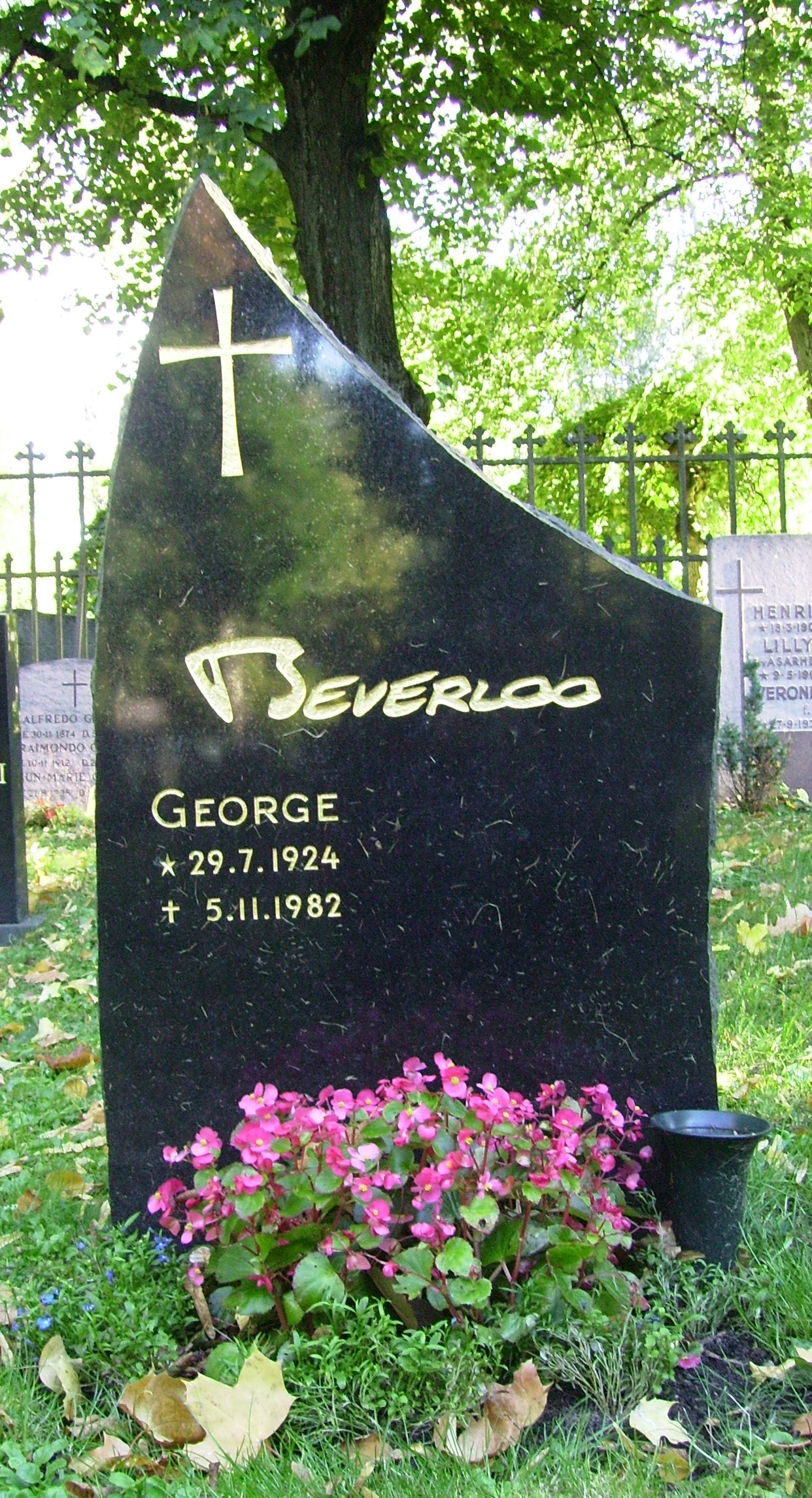 Picture of George Beverloo's grave at Katolska norra begravningsplatsen in Solna